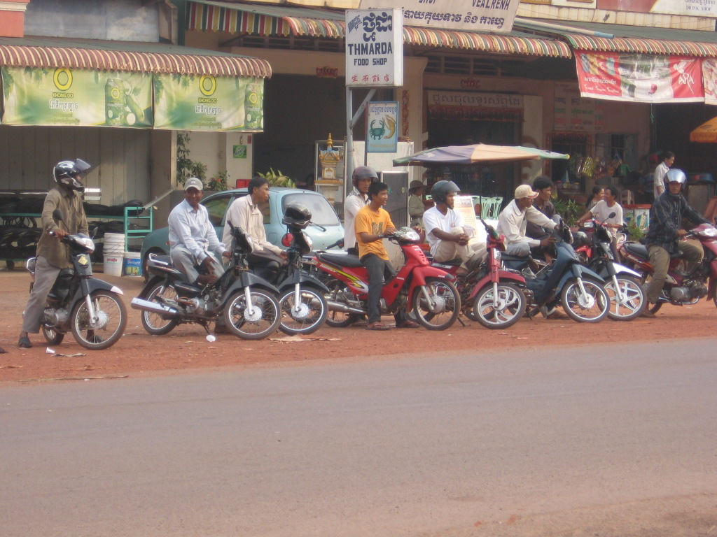 Taxi motorbike drivers (Moto-dups) waiting customers at Veal Renh Market, Sihanoukville​ (Cambodia) in Feb 1st 2009. ភាសាខ្មែរ: អ្នករត់ម៉ូតូឌុបកំពុងរងចាំម៉ូយ នៅផ្សារវាលរេញ កាលពីថ្ងៃទី១ កុម្ភ: ឆ្នាំ២០០៩ ខេត្តព្រះសីហនុ។